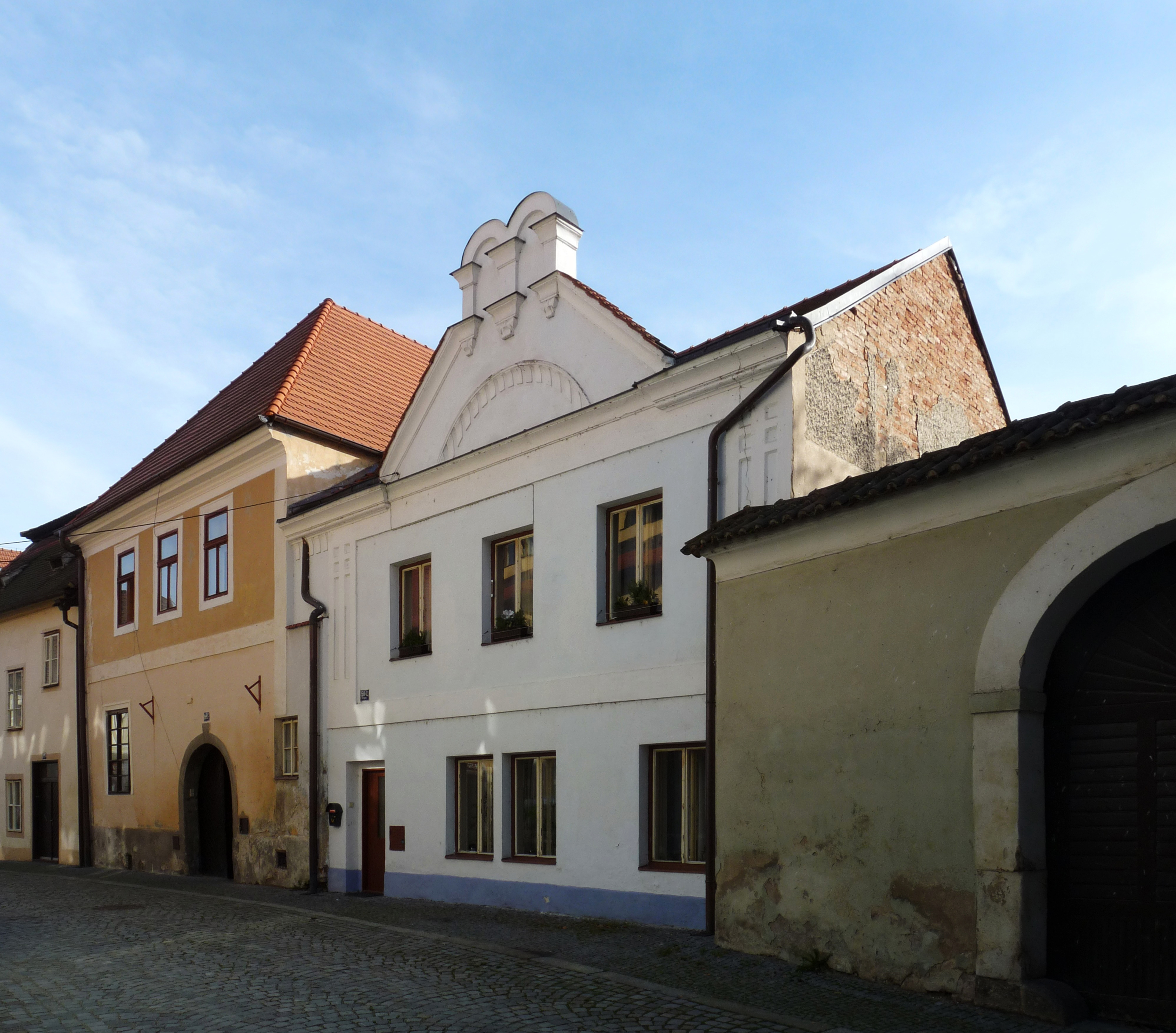 Former synagogue in the town of Třeboň, Jindřichův Hradec District, South Bohemian Region, Czech Republic. The orange house on its left is the former cheder.